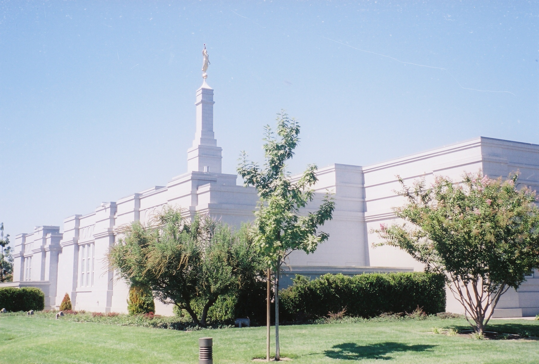 Rear corner of the Fresno California Temple of The Church of Jesus Christ of Latter-day Saints.